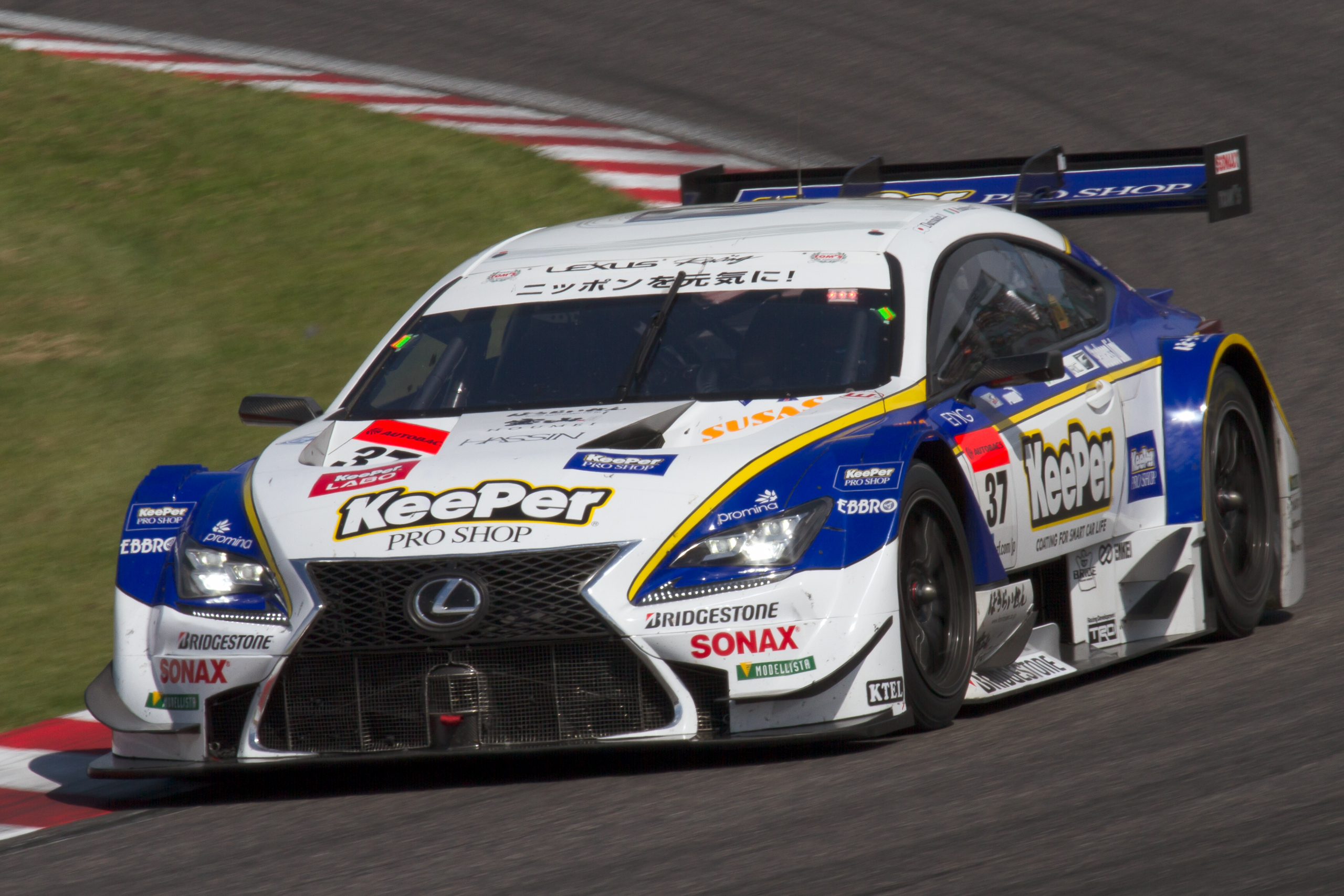 Super GT 2014 Rd.6 Suzuka 1000km: Daisuke Ito (TOM'S)